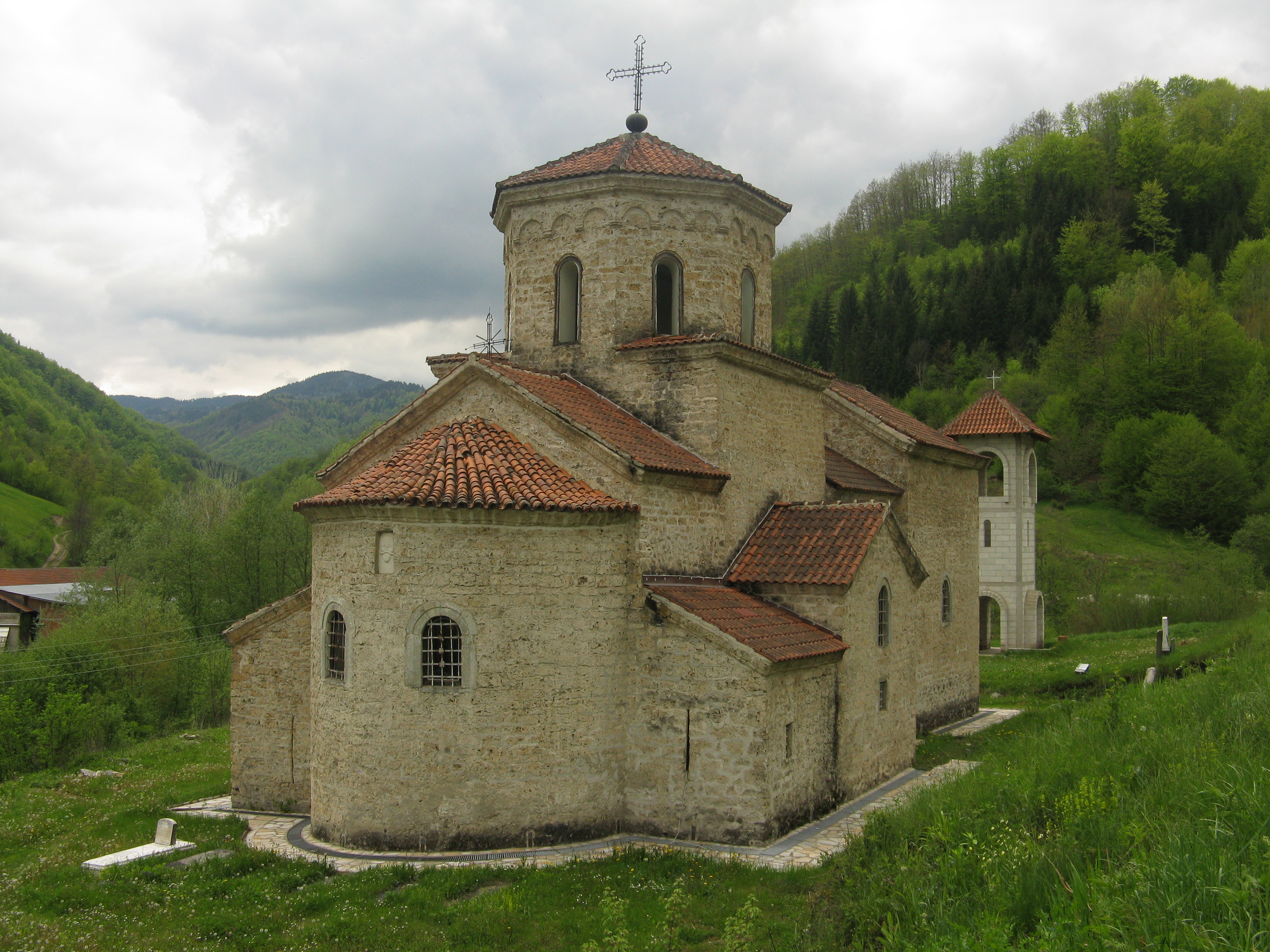 The Church of Holy Transfiguration in Pridvorica